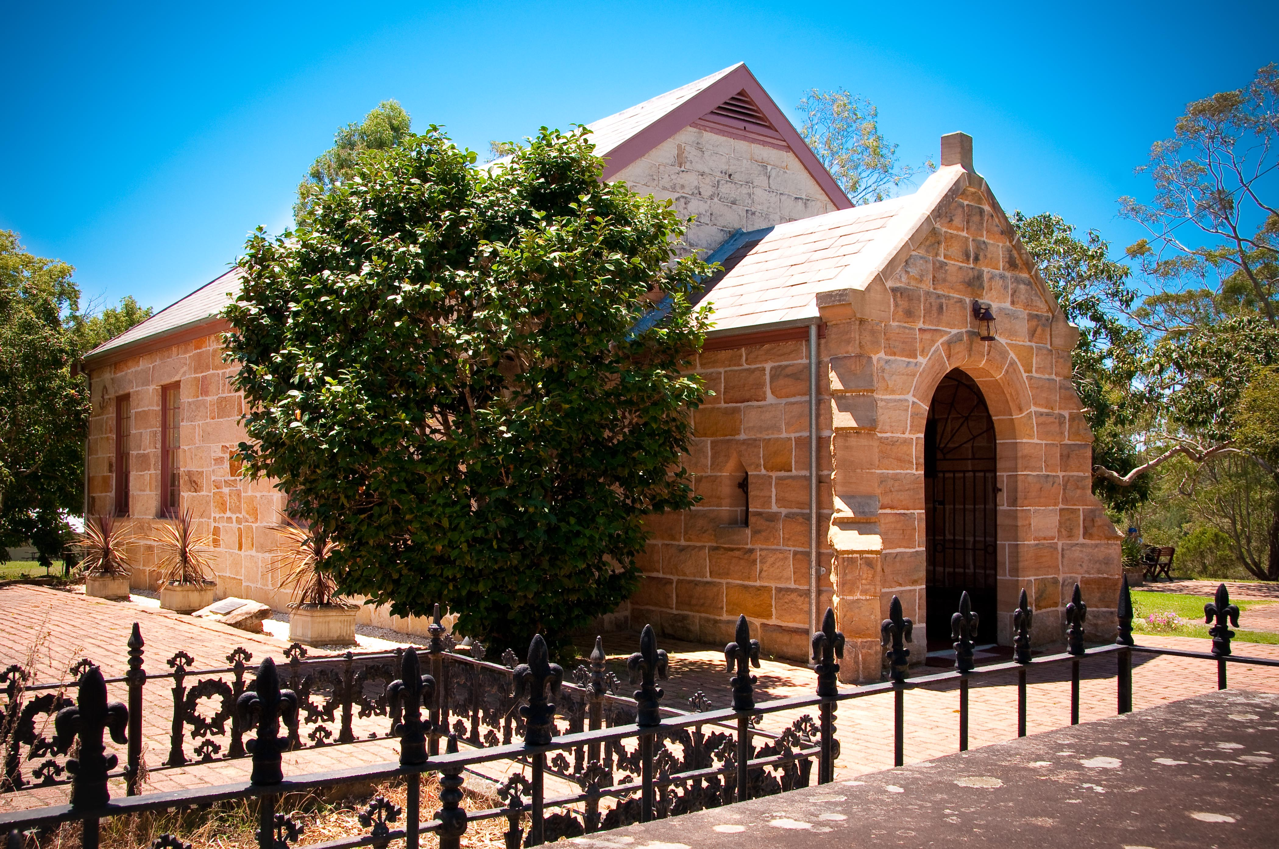 Ebenezer Uniting Church NSW Established in 1809, Ebenezer church is Australia's oldest surviving. It is the first non-conformist then Presbyterian Church in Australia and was a pioneer in education in the colony, beginning a school in 1810. The church is the oldest extant school building in Australia. The Coromandel covenantors arrived in Sydney in 1802 and began as pioneer farmers on the Hawkesbury at Portland Head in 1803. After five years of worship in the open air and in the homes of Dr Arndell and Owen Cavanough they, with seven other families, covenanted on the 22 nd September 1808. They formed the ‘Society for the Propagation of Christian Knowledge and the Instruction of Youth’ and agreed to build a church and school and to call a minister to facilitate their faith. Ebenezer means ‘The Lord has helped us all the way’ or ‘Stone of Help’. 1 Samuel: Chapter 7 Verse 12.